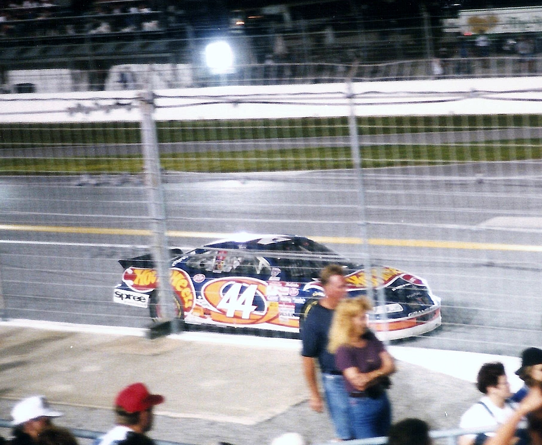 The 1998 Pepsi 400 at Daytona